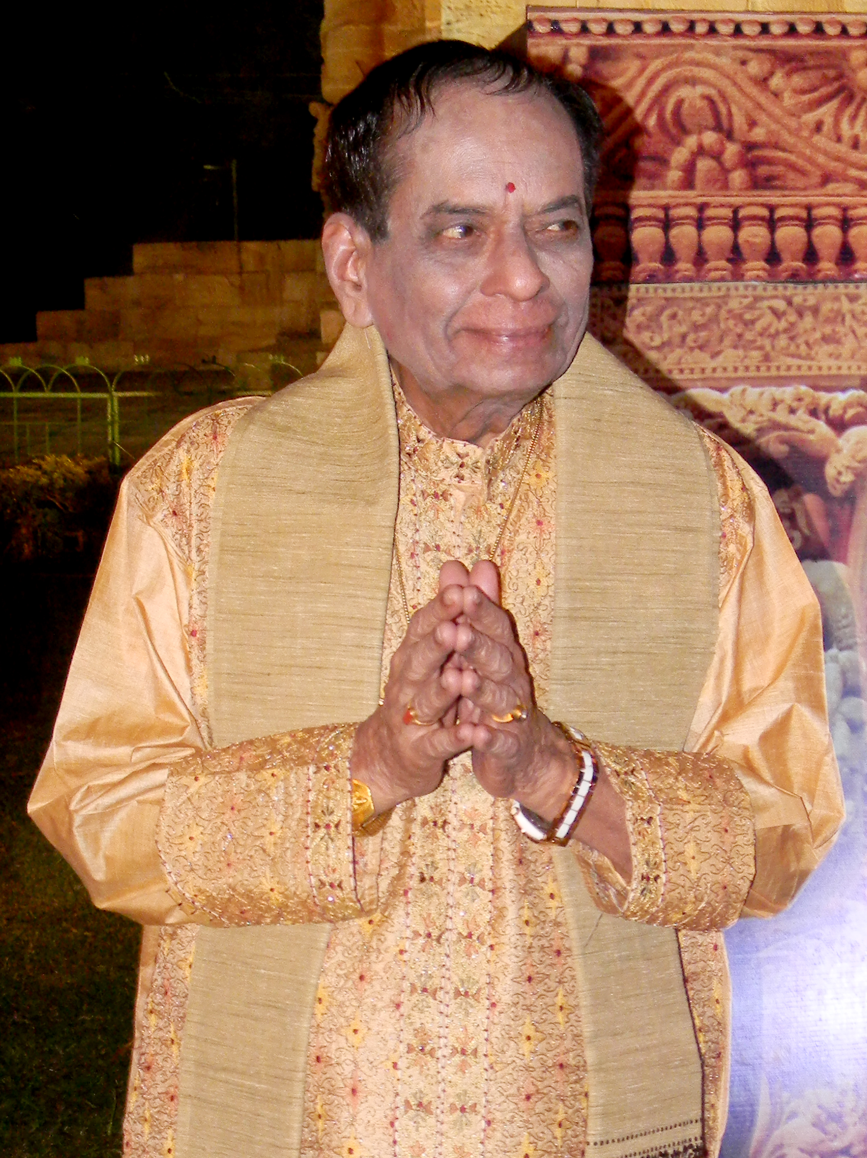 ଓଡ଼ିଆ: Dr. M. Balamuralikrishna at Rajarani Music Festival, Bhubaneswar This media file is uploaded with Odia loves Wikipedia